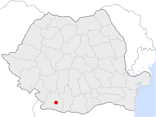 Location of Segarcea in Romania.